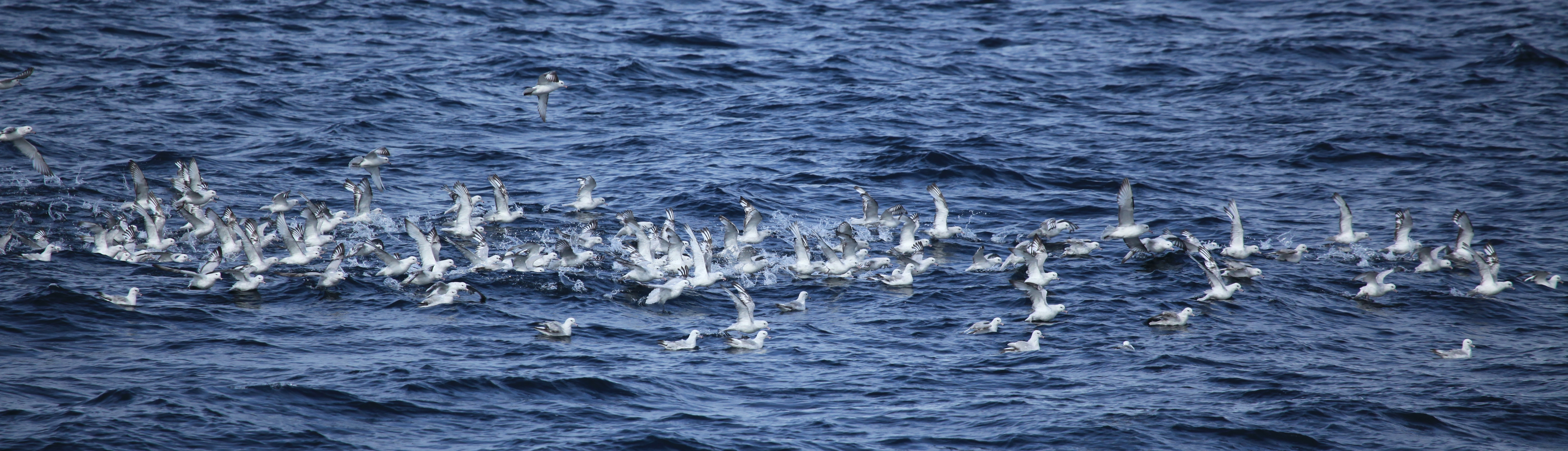 Southern Fulmars in the Gerlache Strait, Antarctica